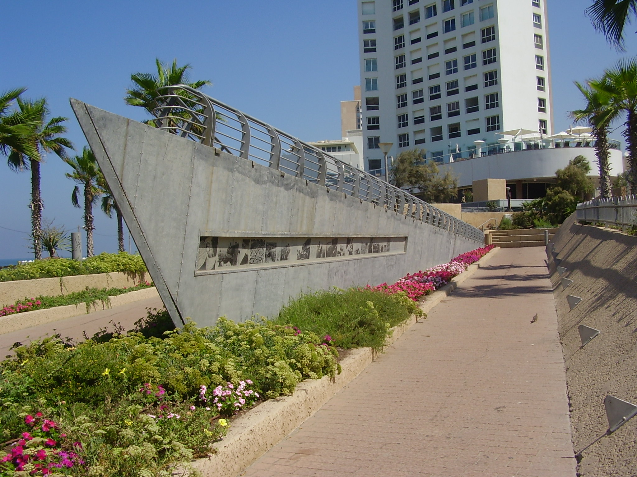 Immigration (Ha\'apala) monument in Tel Aviv